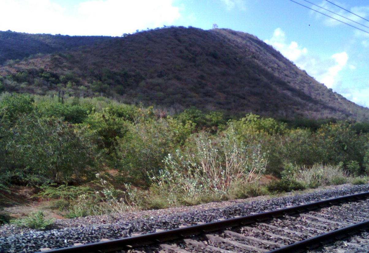 View of Mangalagiri Hills, Guntur district, Andhra Pradesh